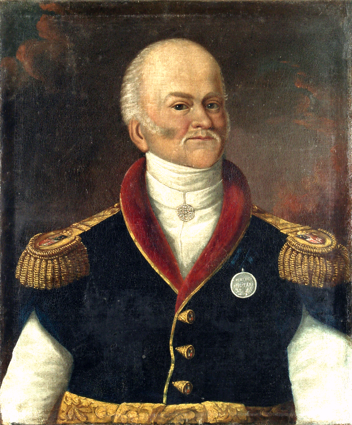 Ksawery Krasicki